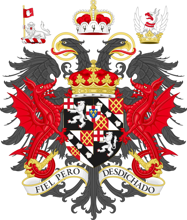 coat of arms of the duke of Marlborough Arms. Quarterly: 1st and 4th, Sable a Lion rampant Argent, on a Canton of the second a Cross Gules (Churchill); 2nd and 3rd, Quarterly Argent and Gules a Fret Or on a Bend Sable three Escallops of the first (Spencer); over all in the centre chief point (as an Honourable Augmentation), an Escutcheon Argent charged with the Cross of St George surmounted by another Escutcheon Azure charged with three Fleur-de-lis two and one Or. [The whole arms borne upon an imperial eagle, as prince of the Holy Roman Empire, above the arms, a princely coronet]. Crest. 1st, a Lion couchant guardant Argent supporting a Banner Gules charged with a Dexter Hand couped Argent (Churchill); 2nd, out of a Ducal Coronet Or a Griffin's head between two Wings expanded Argent gorged with a Collar gemelle and armed Gules (Spencer). Supporters. On either side a Wyvern wings elevated Gules. Motto. Fiel Pero Desdichado (Faithful, though unfortunate). Cracroft's Peerage